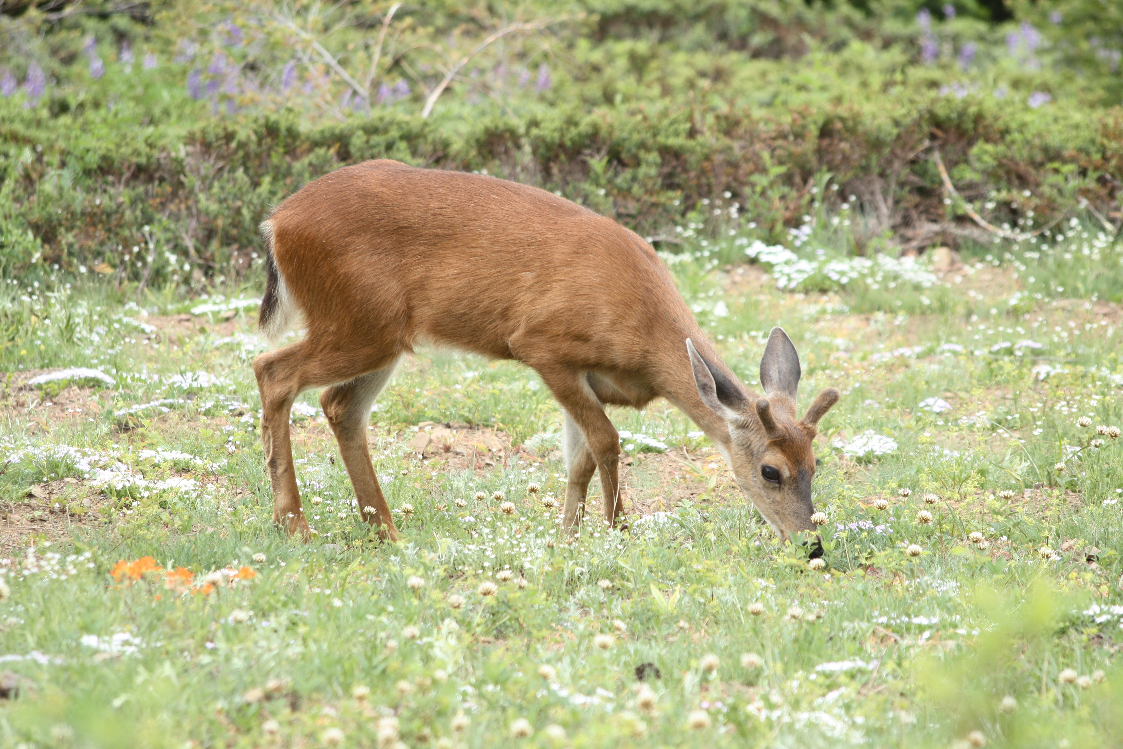 Columbian Black-tailed Deer, Coast Deer male